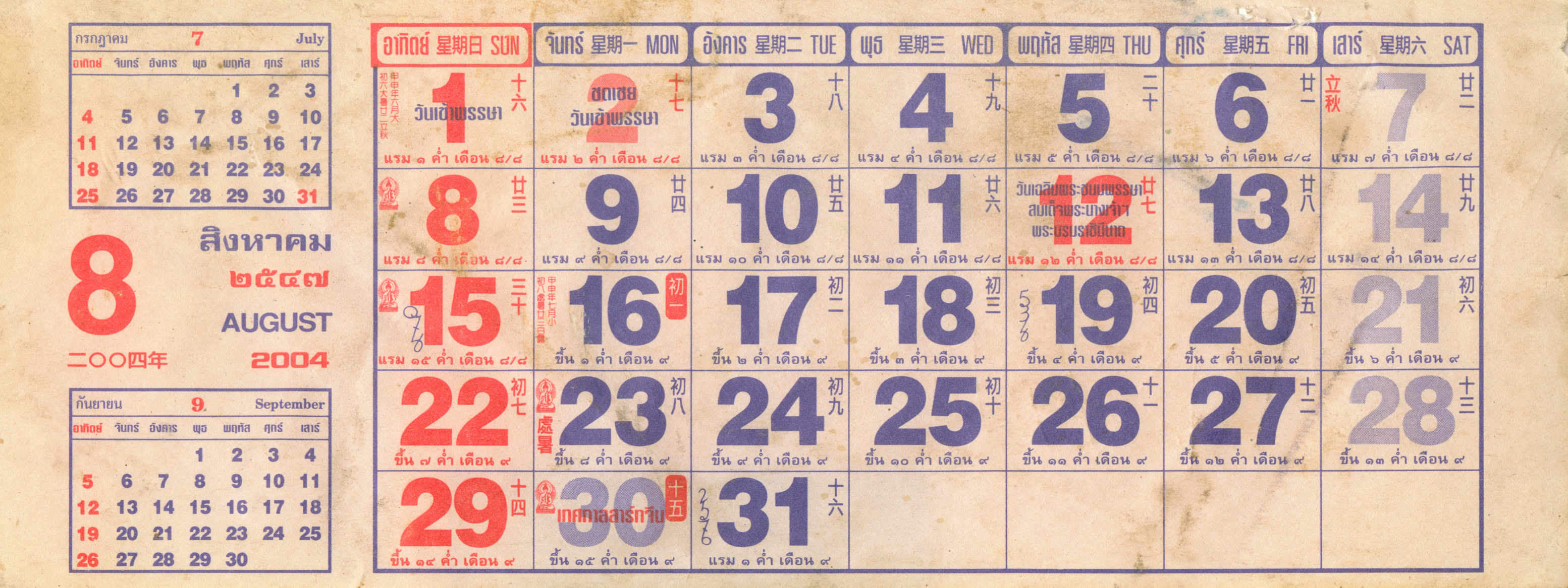 Scan of generic Thai calendar page of type printed in bulk for stapling to an advertising poster, which depicts August, A.D. 2004/2547 B.E., the beginning of which corresponded with the beginning of the waning of the Thai Lunar Calendar leap month, Moon 8/8. The copyright status of such a calendar page that cannot be attributed to any one source is unknown. The scan itself, commissioned by me, is public domain.